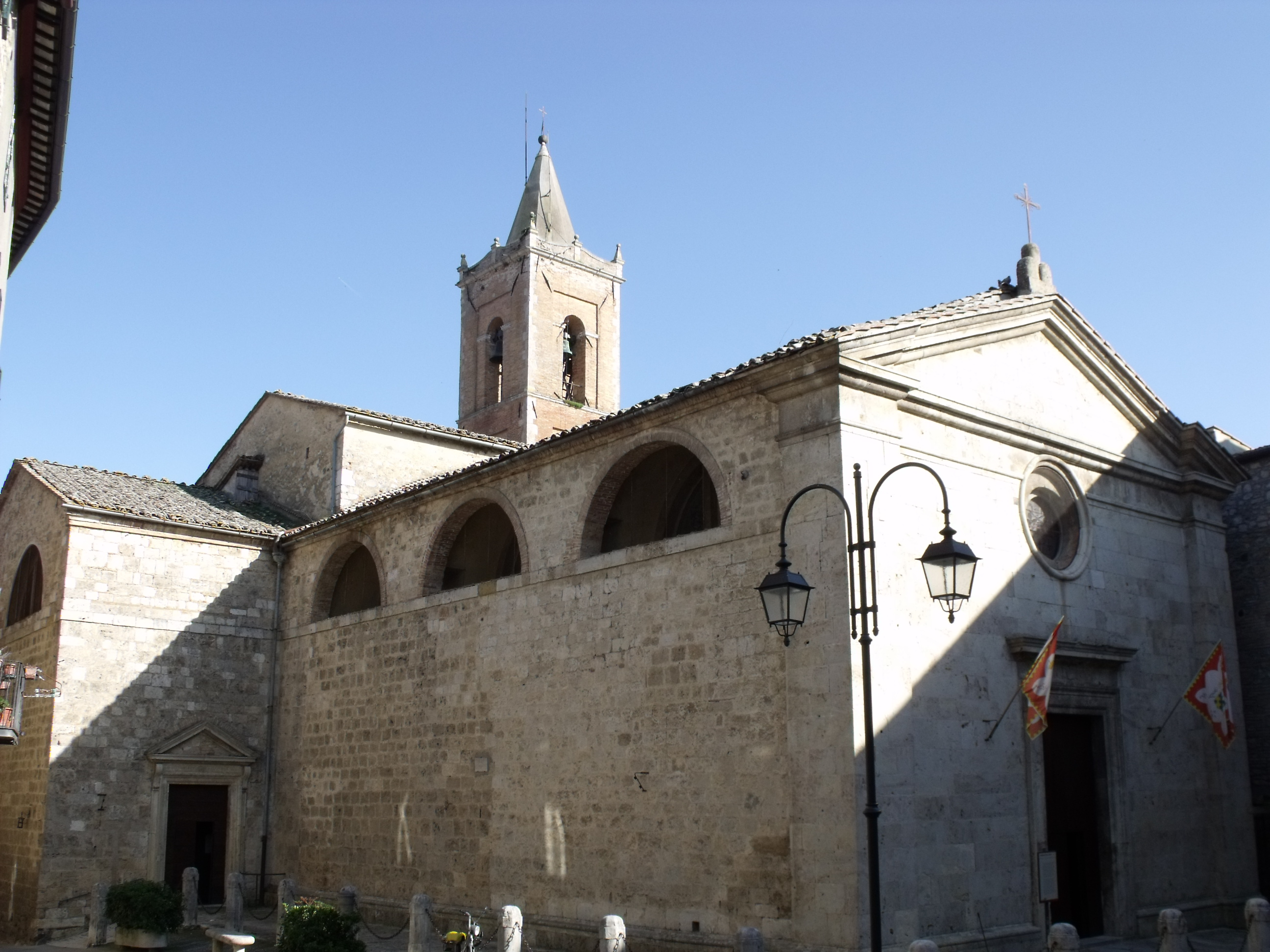 Church of San Lorenzo in Sarteano, Province of Siena, Tuscany, Italy